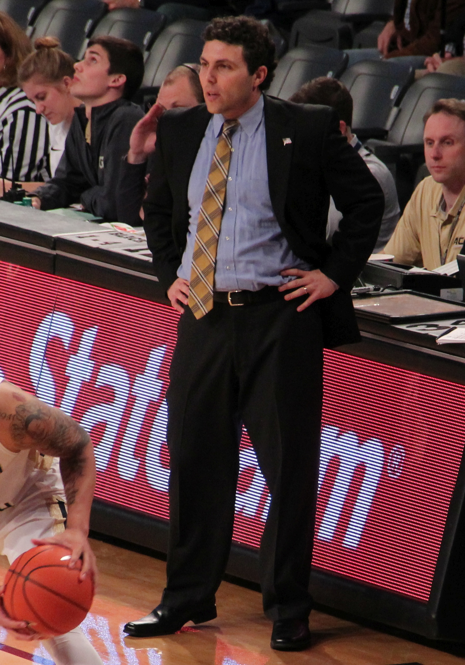 Georgia Tech men's basketball coach Josh Pastner, December 2016